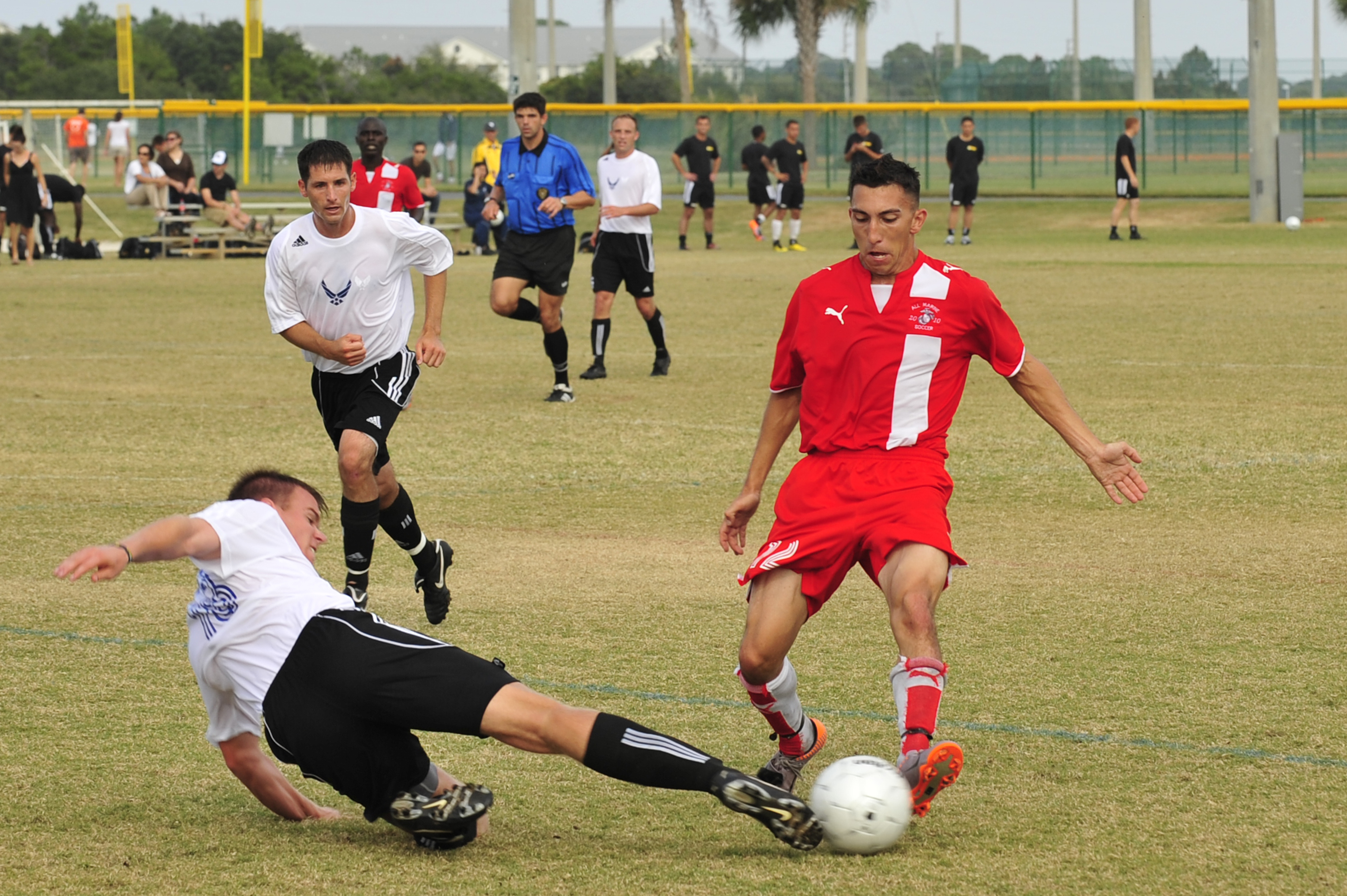 U.S. Air Force 2nd Lt. Kevin Rosser, slide tackles U.S. Marine Corps Lance Cpl. Juan Torres for the ball while U.S. Air Force Capt. Jeremiah Kirschman runs in to assist during an Armed Forces Men's Soccer Championship match at Morgan Sports Complex, Destin, Fla., Oct. 24, 2010. The Armed Forces Championships are conducted by the Armed Forces Sports council for the purpose of promoting, understanding, goodwill, and competition among the Armed Services.